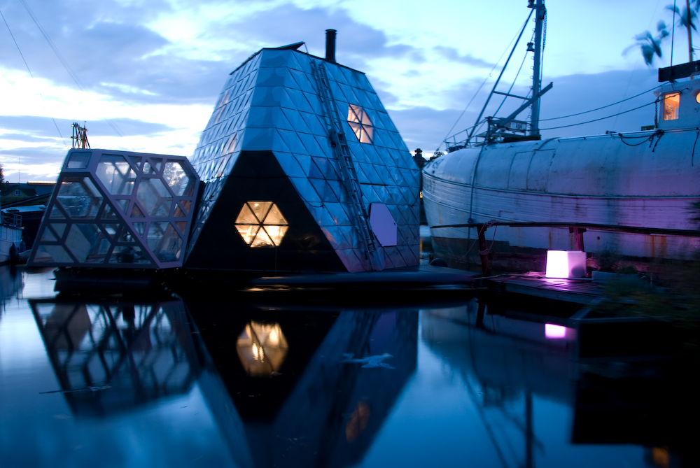 Spaceframe in the Port of Copenhagen. Designed by the artist group N55 and Erling Sørvin